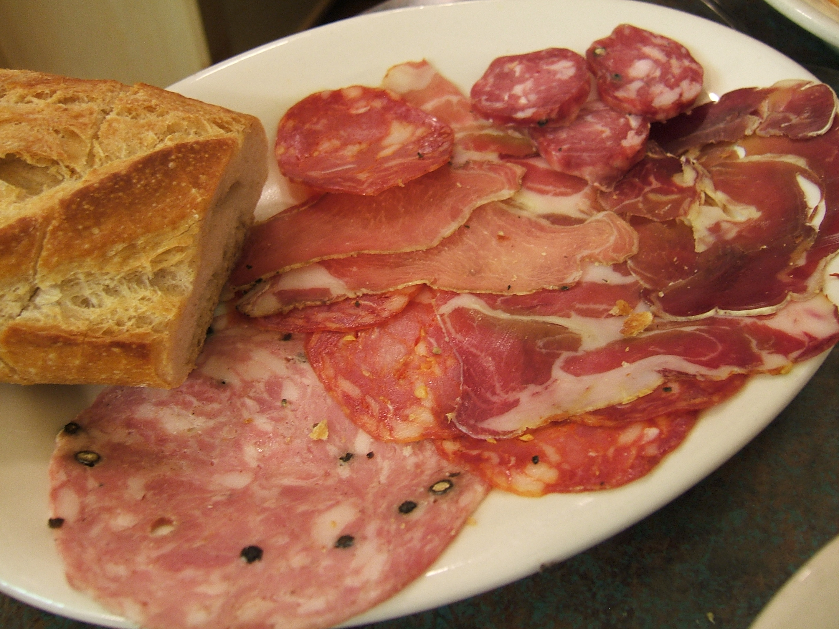 Home-cured meats at Salumi deli, Seattle